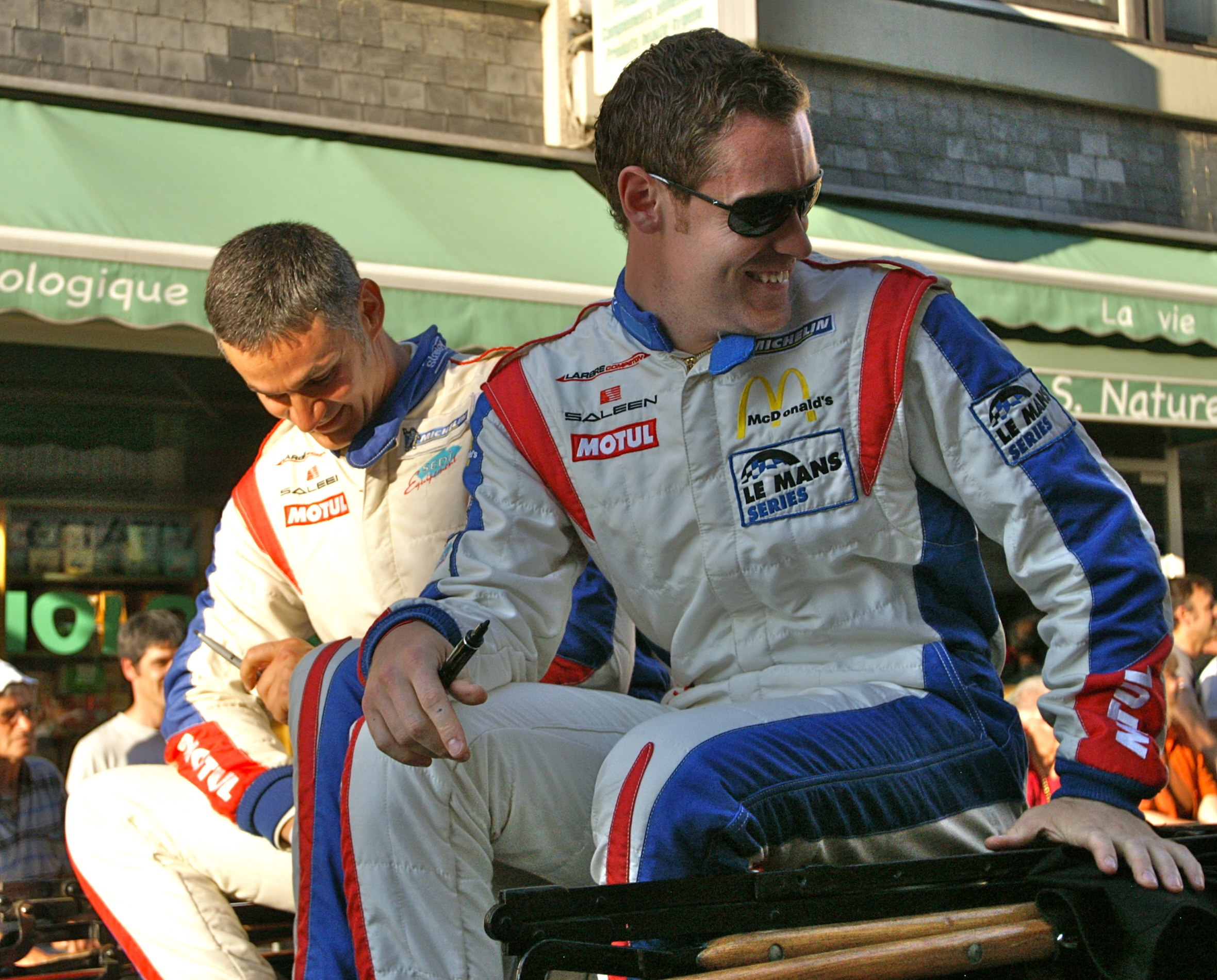 Le Mans 2010, Drivers' Parade Winners of the LMGT1 Class